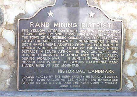 This will give you some information about the area where the following photos were taken.